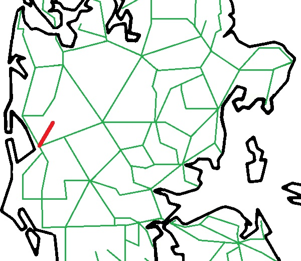 Map of railways in Middle Jutland in Denmark with the state railway Skjern-Videbæk banen in red.